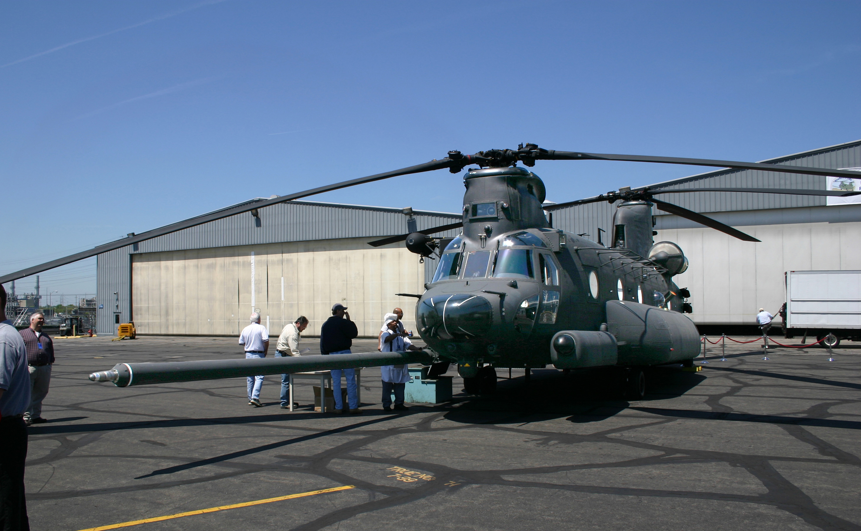 Boeing employees observe the company's newest aircraft, the MH-47G Chinook helicopter, during the aircraft's rollout ceremony May 6 at Ridley Park, Pa.